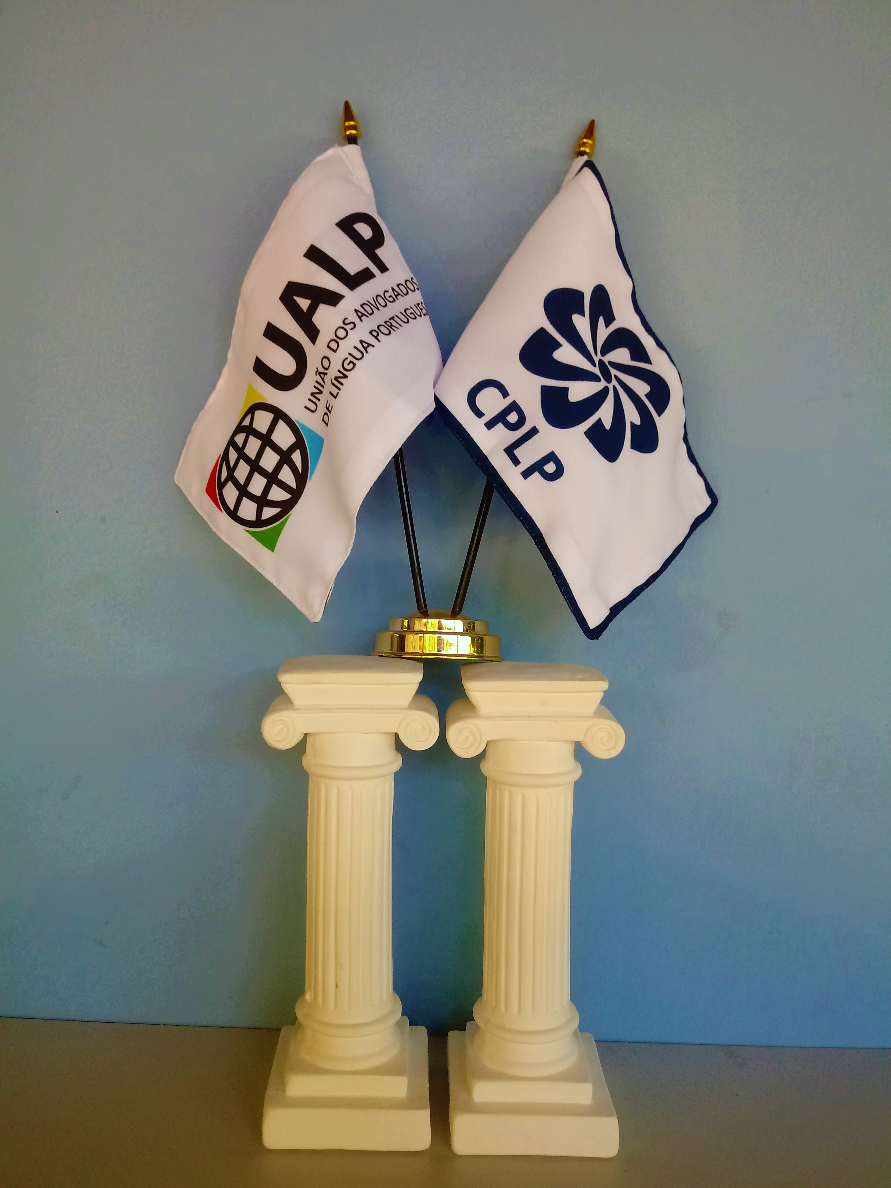 Community of Portuguese Language Countries and UALP, tamble flags.